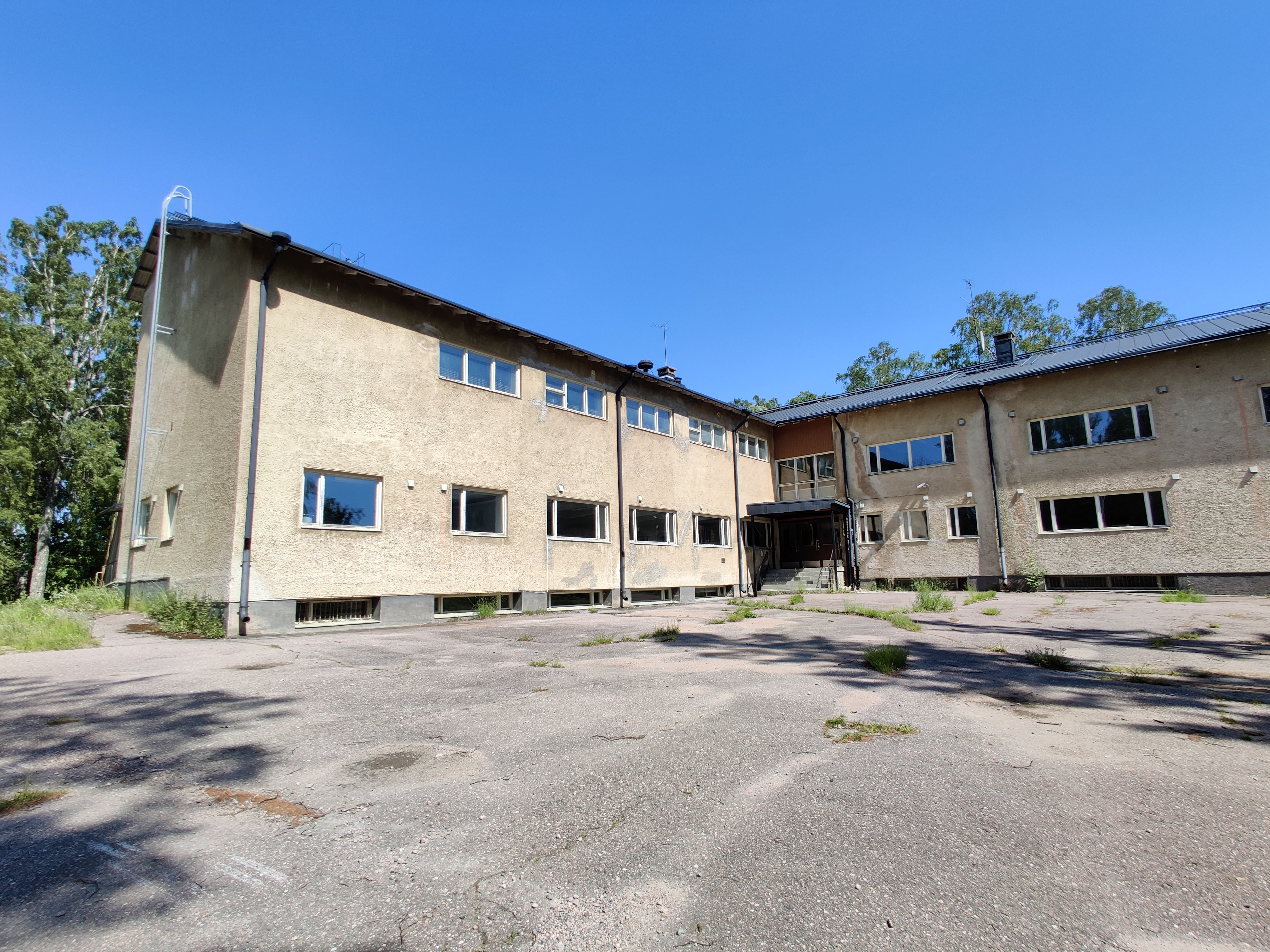 Former Finnish barracks in Isosaari